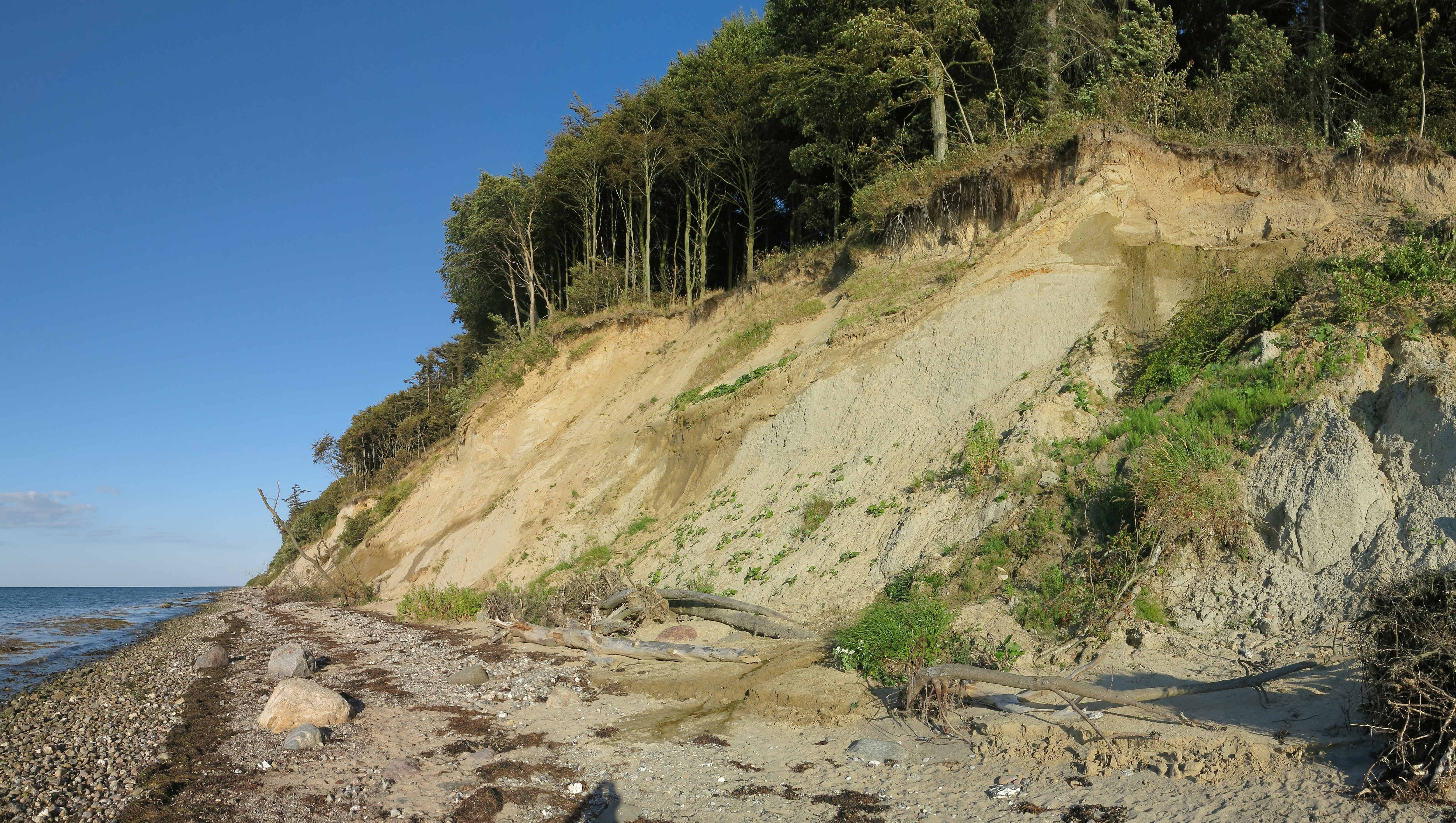 Cliff near Dänisch-Nienhof